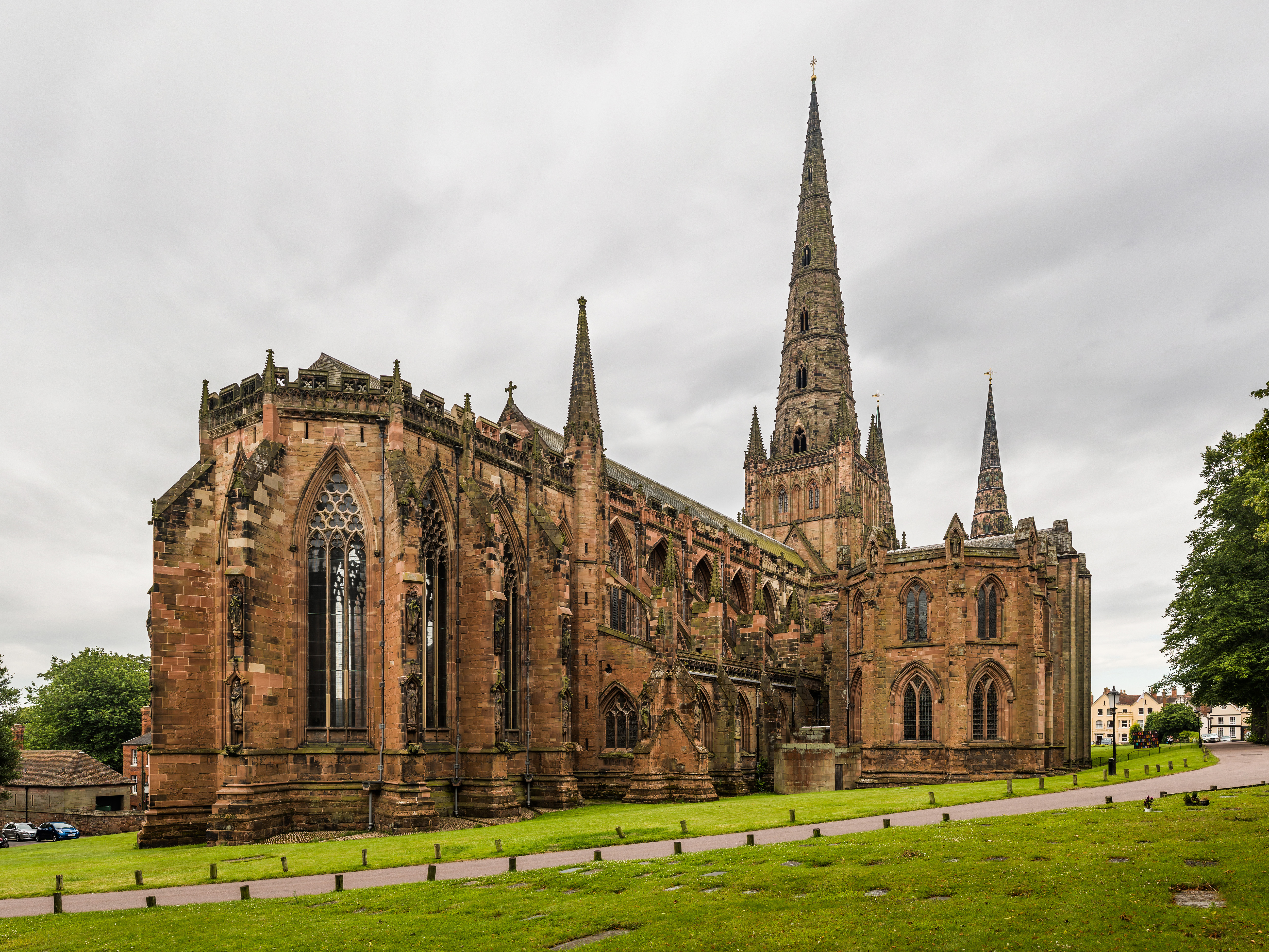 The exterior of Lichfield Cathedral from the north-east in Staffordshire, England.